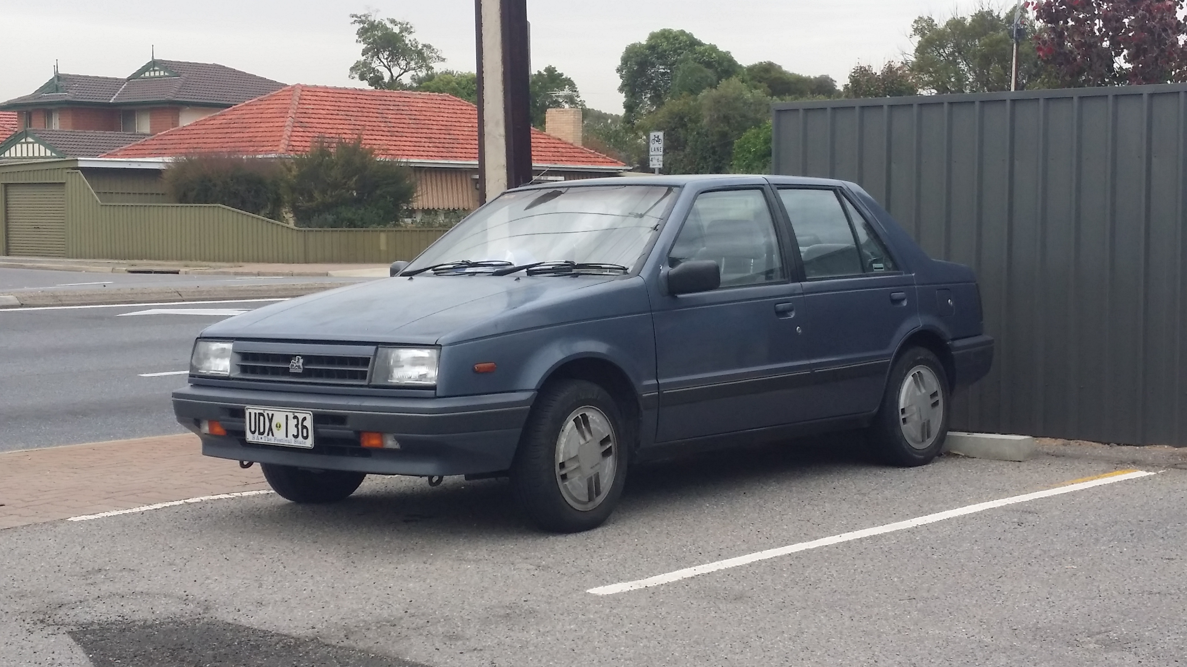 1985–1987 Holden Gemini (RB) SL/E sedan. Photographed in South Australia, Australia.